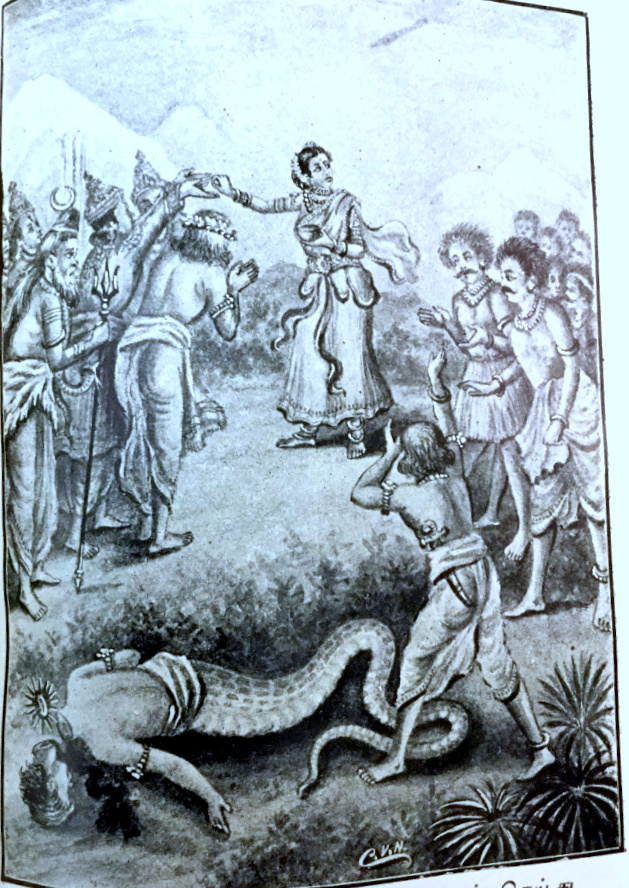 THESE ARE FROM A 100 YEAR OLD BOOK, available in the British library in London.